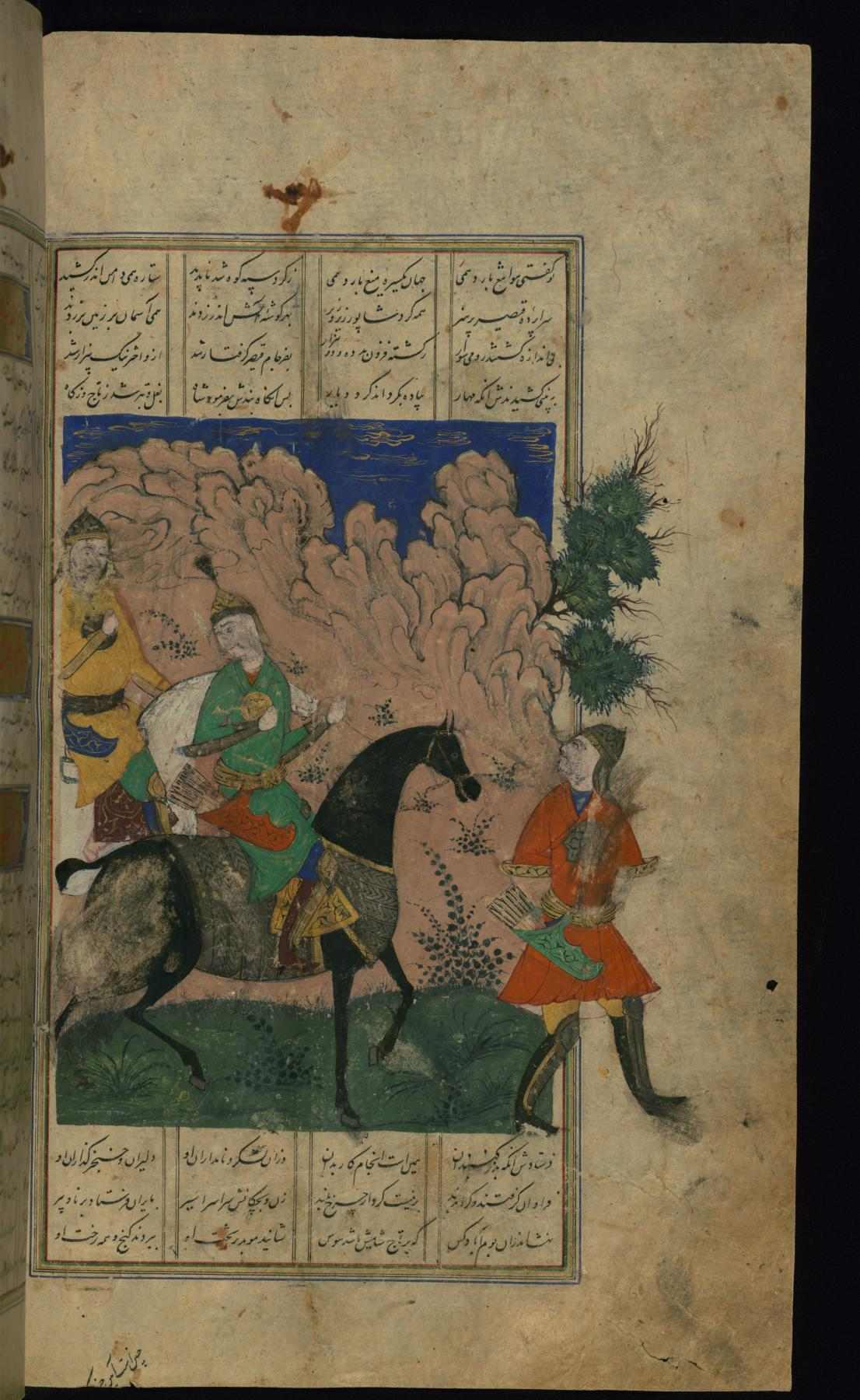 On this folio from Walters manuscript W.603, Shapur captures the king of Rum.